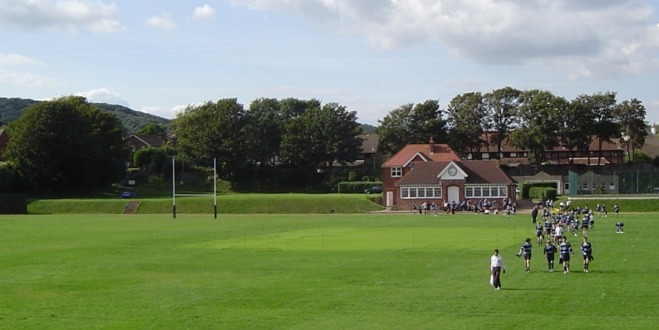 playing fields St Cyprians school, Eastbourne